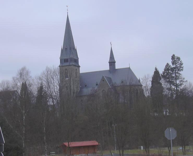 Church in Nonnweiler, Germany